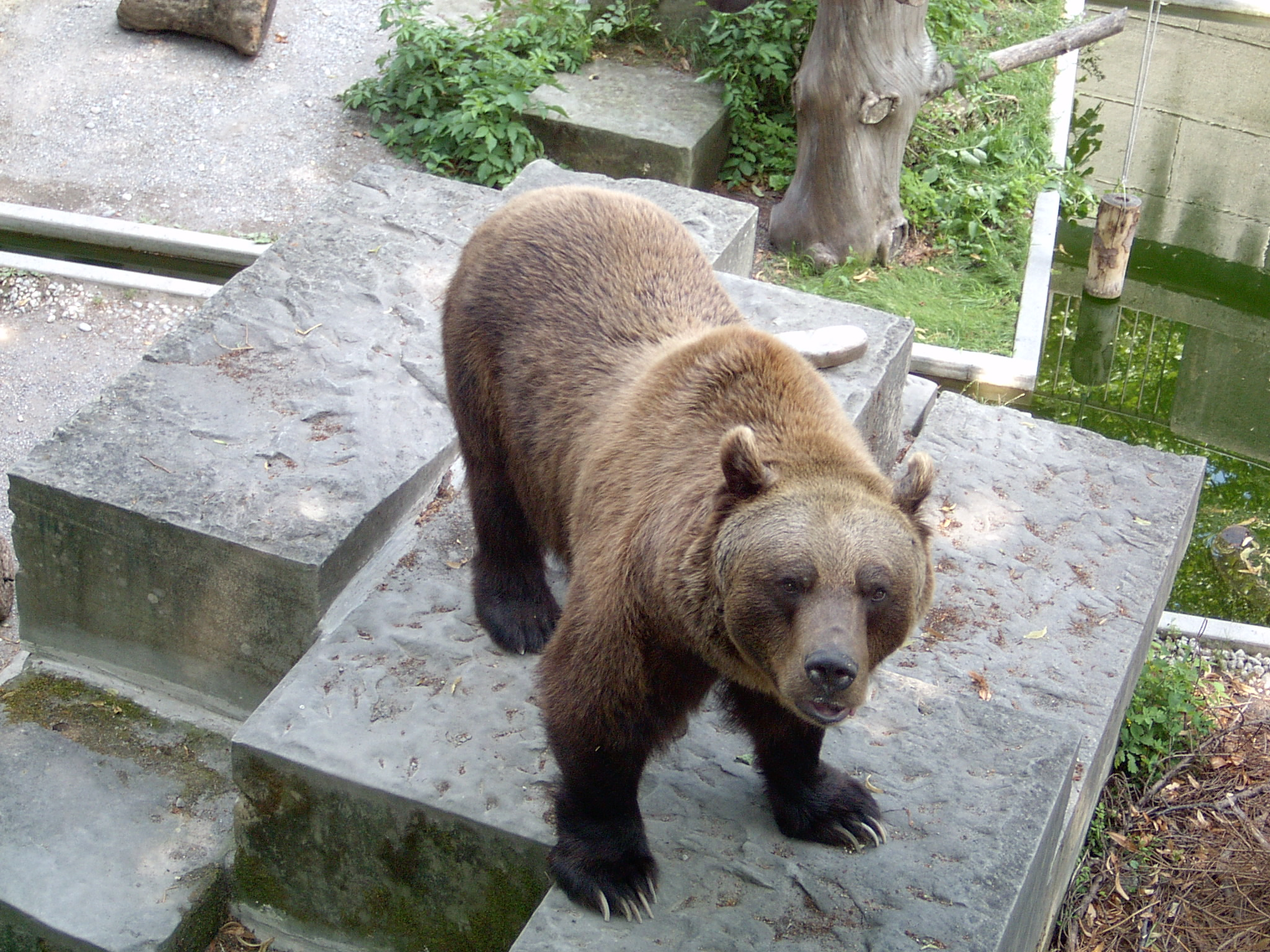 Bear of Berne